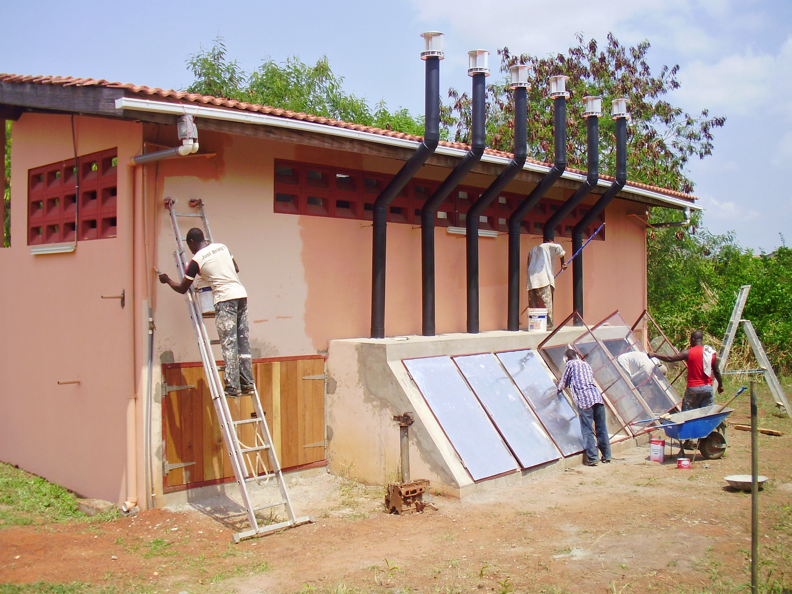 South view, showing ventilation pipes and wind-driven fans. Storm water is collected for hand-washing Photo by Wolfgang Berger, 2009